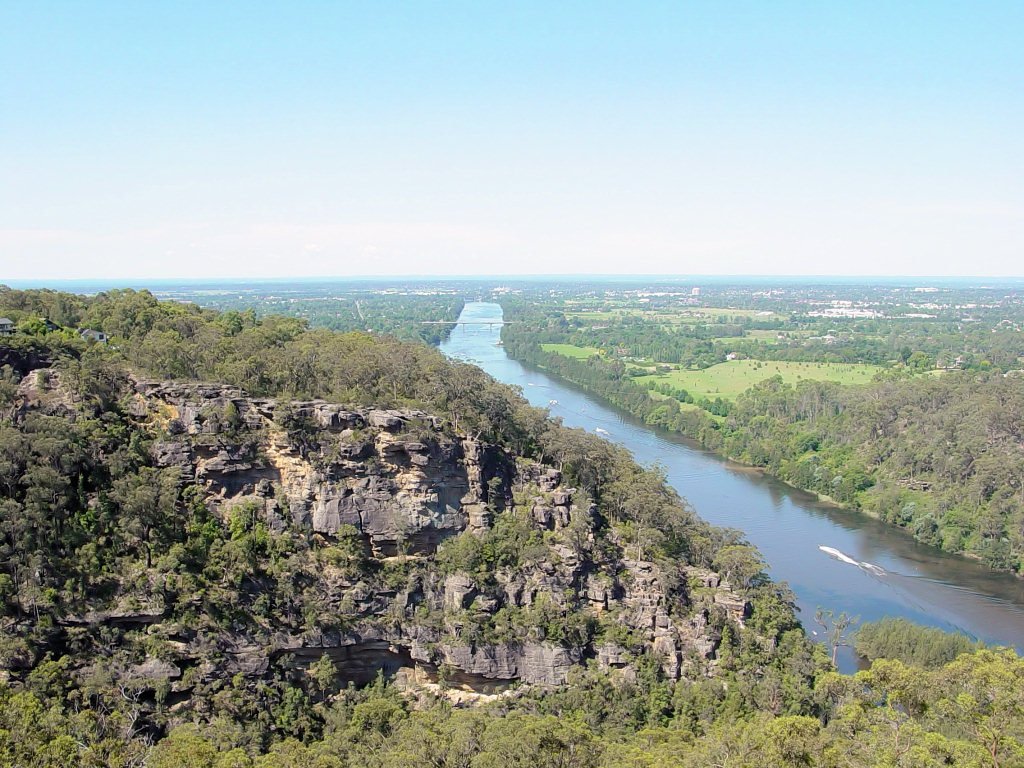 Looking north along the Nepean River, from just south of Penrith. The bridge is where the freeway crosses the river. Demonstrating the exit from the Nepean Gorge anticedent entrenched meander. (Seen from Portal Lookout, Blue Mts NP)